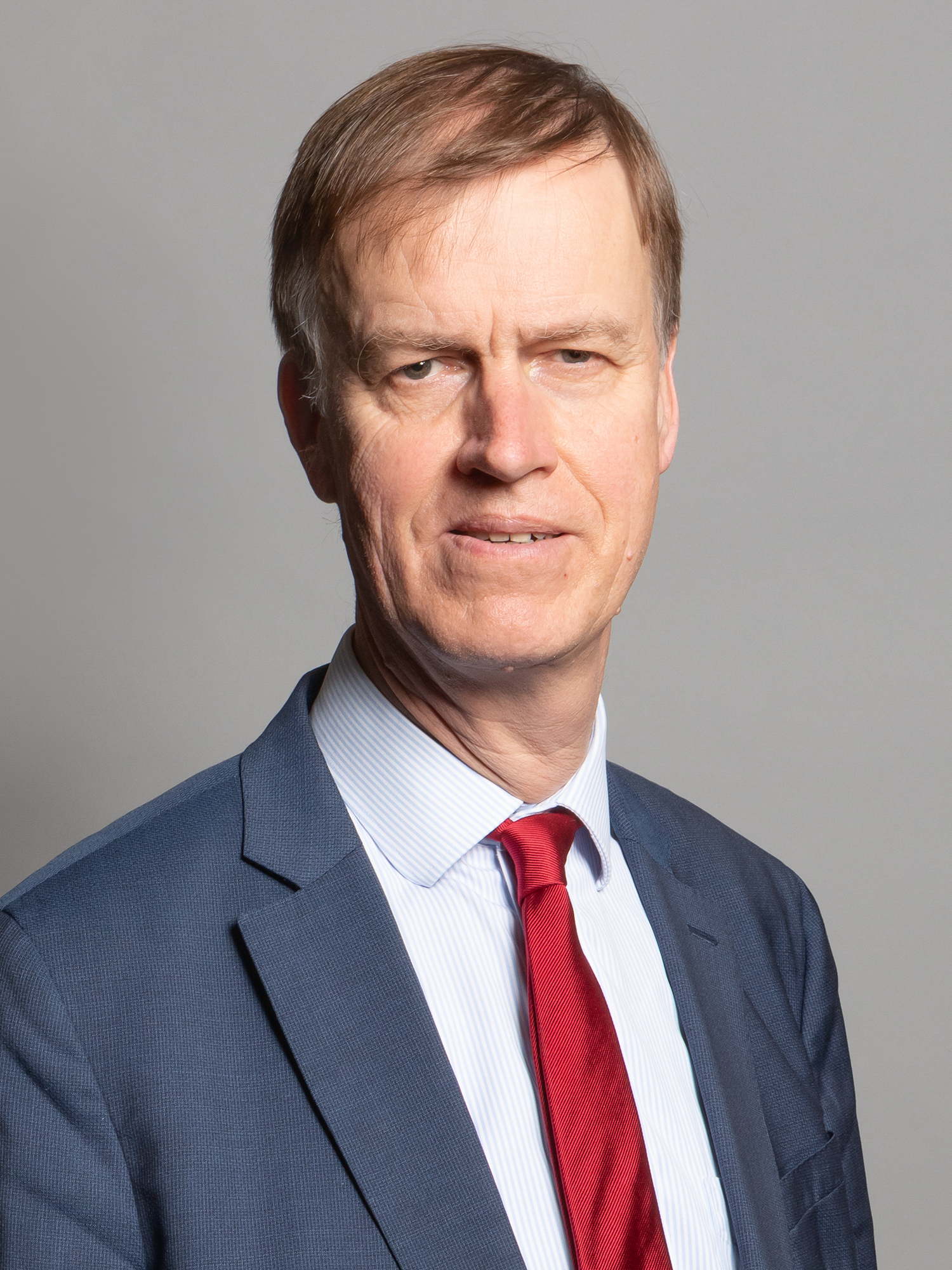 Official portrait of Rt Hon Stephen Timms MP 3×4 portrait of Stephen Timms